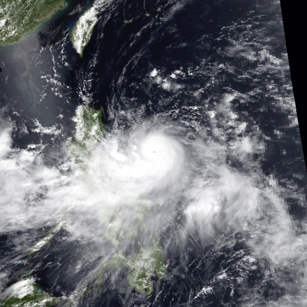 Typhoon Percy on June 26, 1990